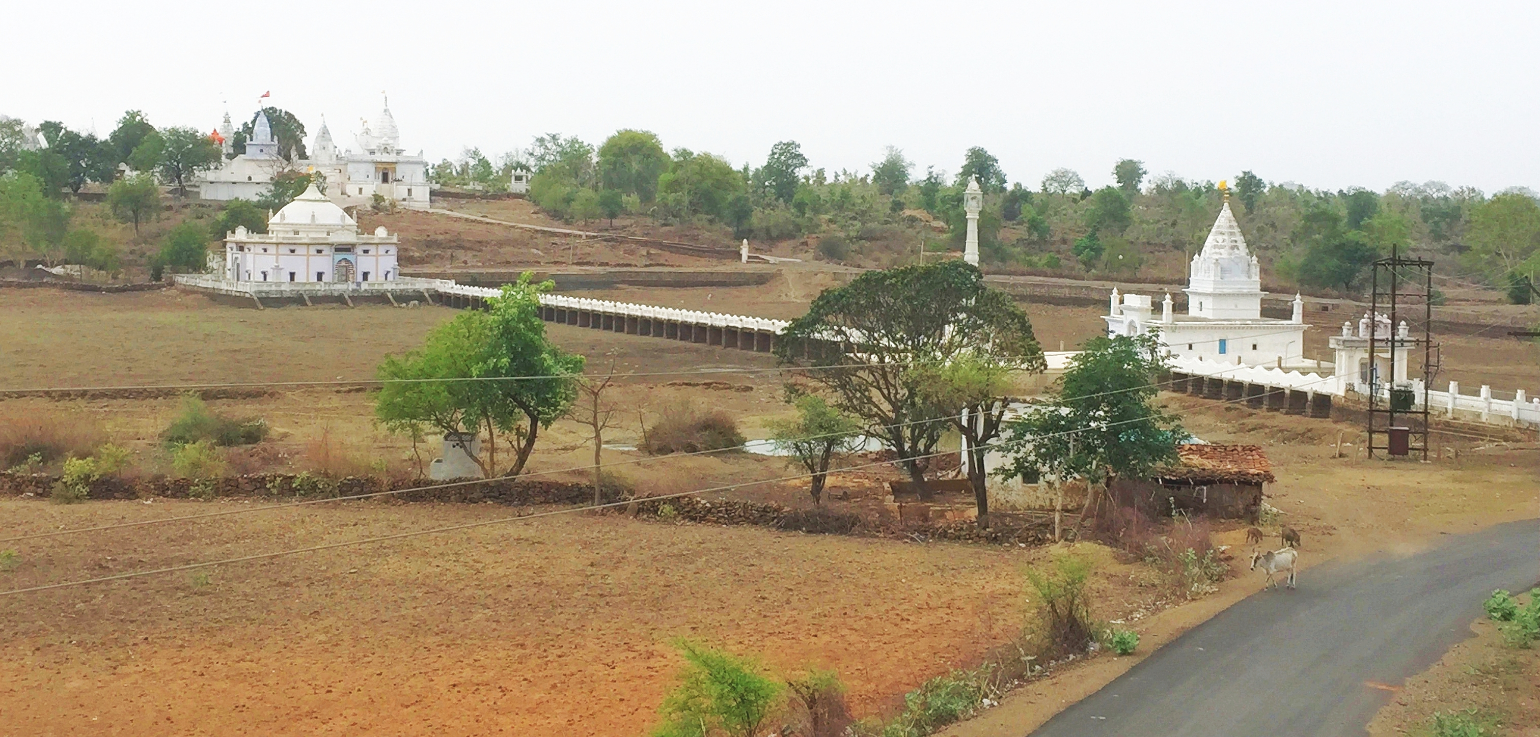 A view of the Nainagiri Tirtha Kshetra